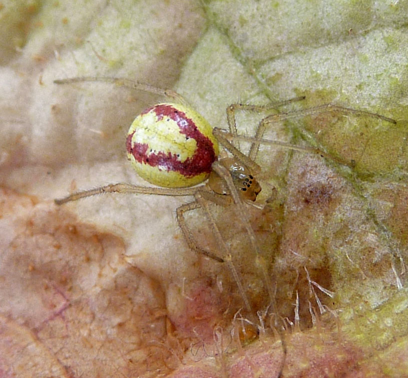 Enoplognatha ovata. Male. Theridiidae